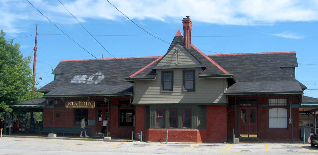 Photo of south facade of Wayne train station in Wayne, Pennsylvania.